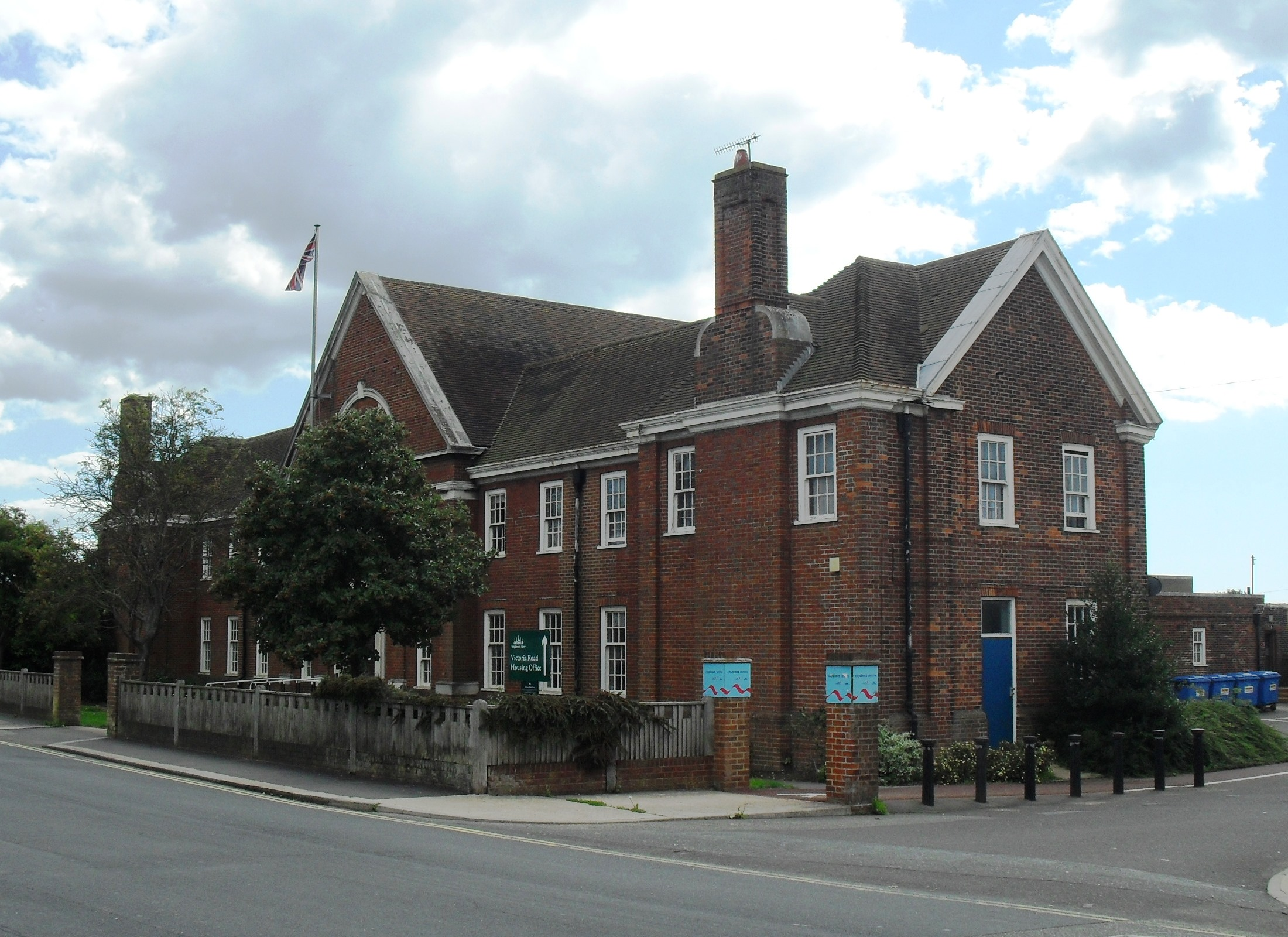 Portslade Town Hall, Victoria Road, Portslade, City of Brighton and Hove, England. Built in 1928 to the design of Gilbert Murray Simpson as the Ronuk Hall and Welfare Institute; it became the town hall in 1959, and is now used as offices by Brighton and Hove City Council.